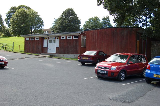 Addingham Scout Hut Due to be demolished to make way for a medical centre and not being replaced on usage and cost grounds.